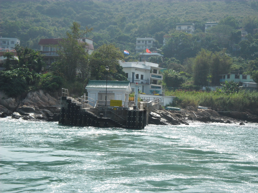 The Pak Kok Ferry Pier on Lamma Island中文（香港）: 南丫島北角村碼頭